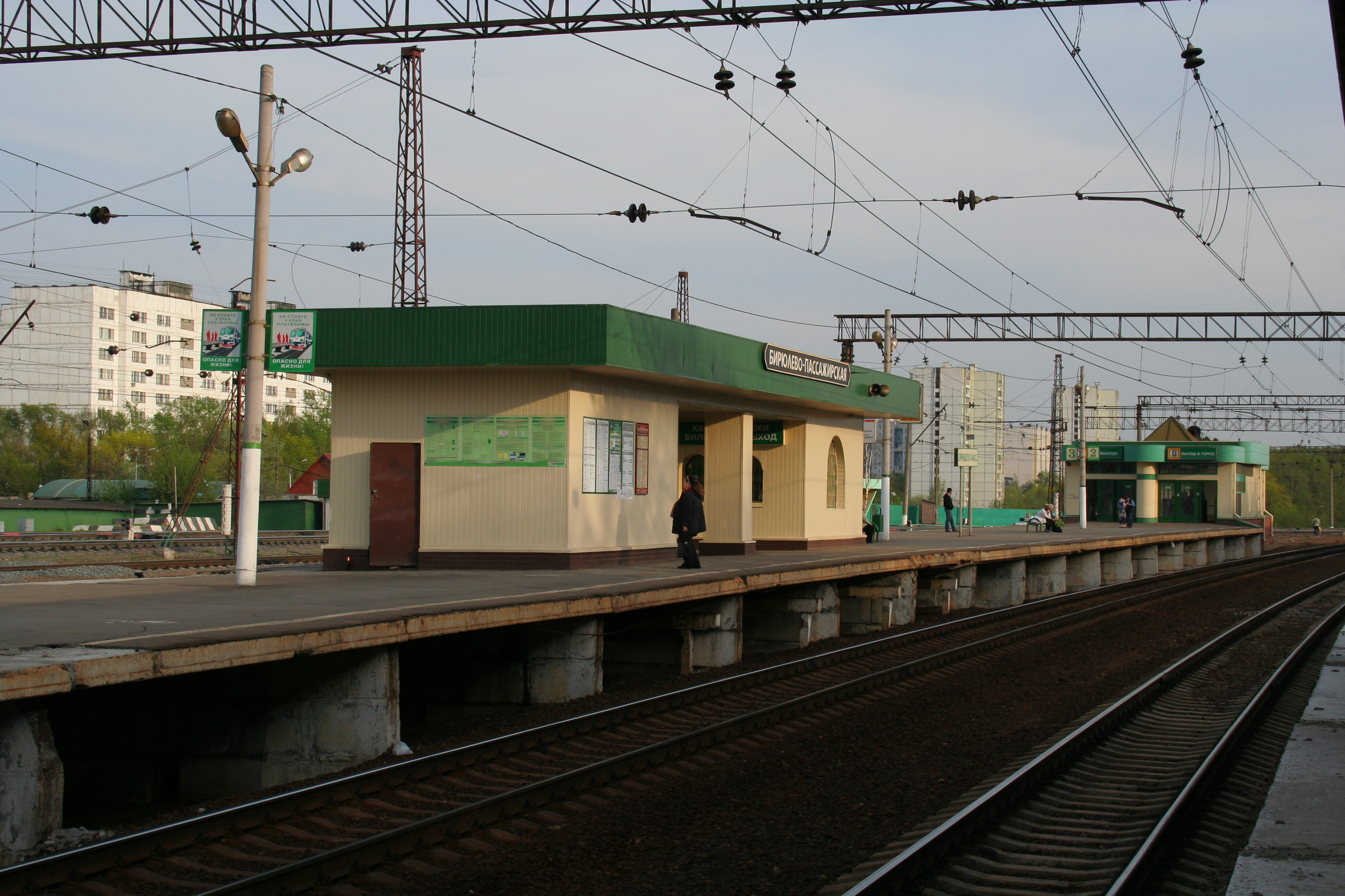 Birulevo-Passazhirskaya train stop, Moscow, Russia